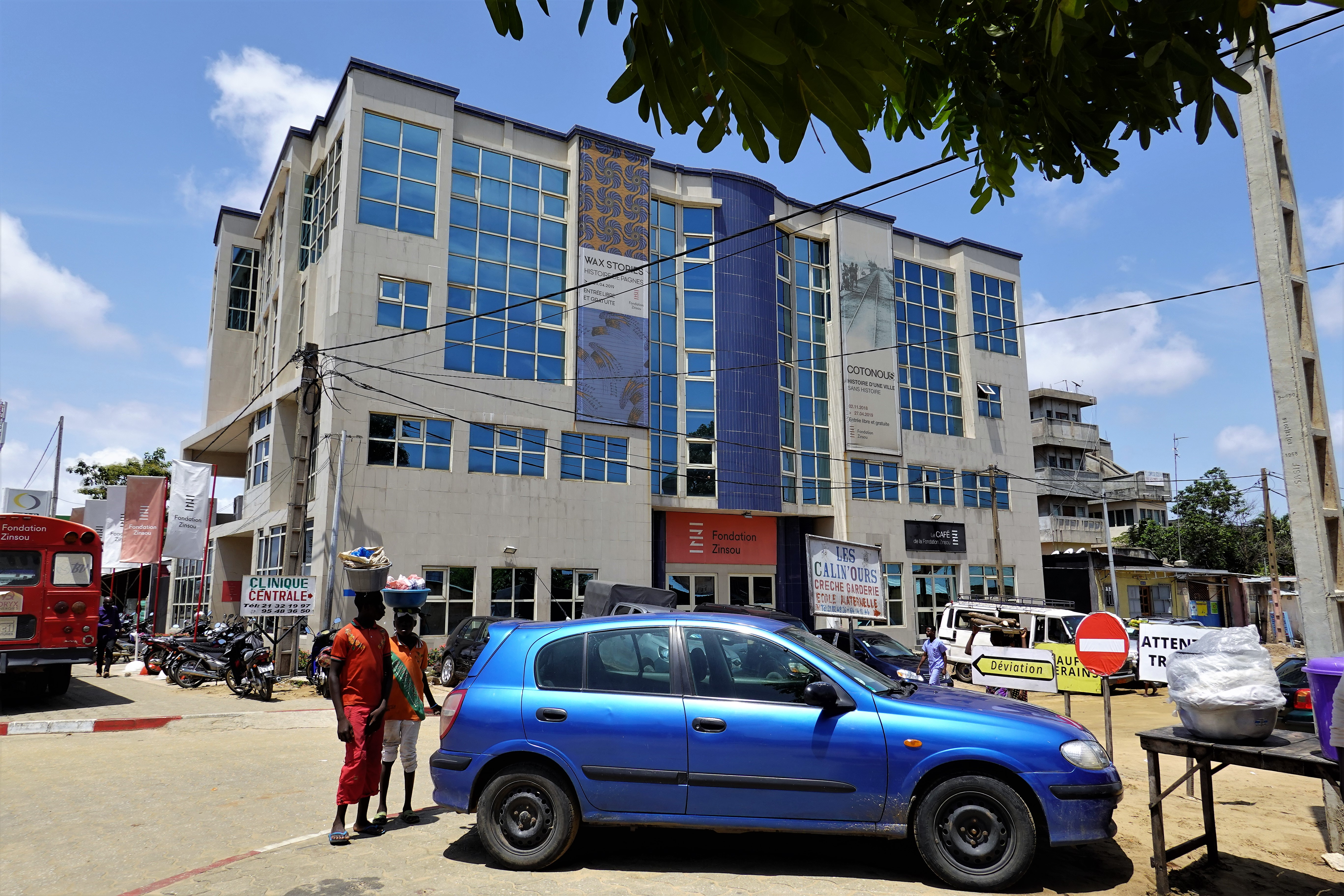 car, ladies and scooters, 6 story building